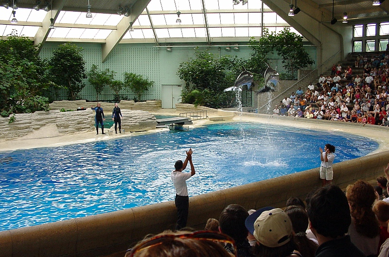 Dolphinarium, Brookfield Zoo, Chicago, Illinois, USA